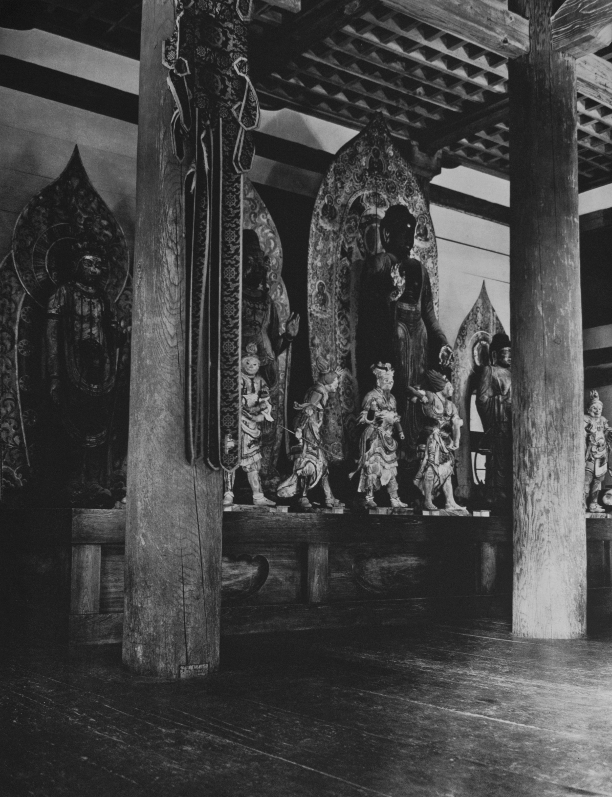 Muroji, Nara, Japan